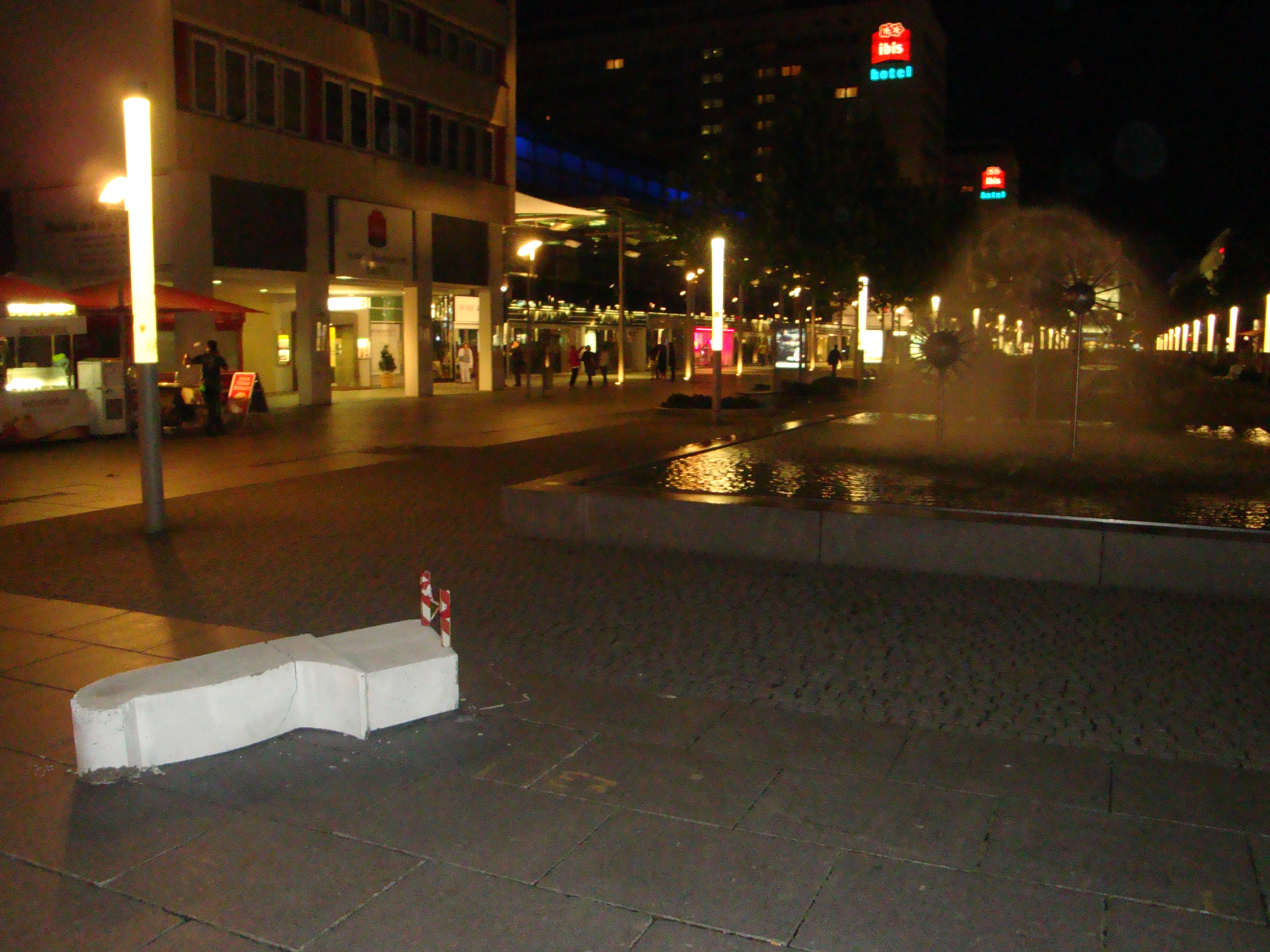 Marwa El-Sherbini Memorial “18 knife stabs” at the Prager Strasse in Dresden. Turned over and damaged.